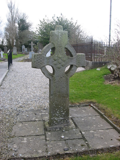 High Cross at Duleek The 9th-century 'high cross' in the graveyard of the decommissioned St. Cianan's Church of Ireland. The east face bears panels of geometrical interlace. The tenon would have held the house-shaped cap-stone.